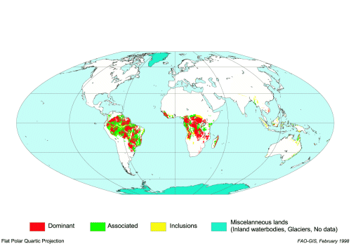 distribution of Ferralsols